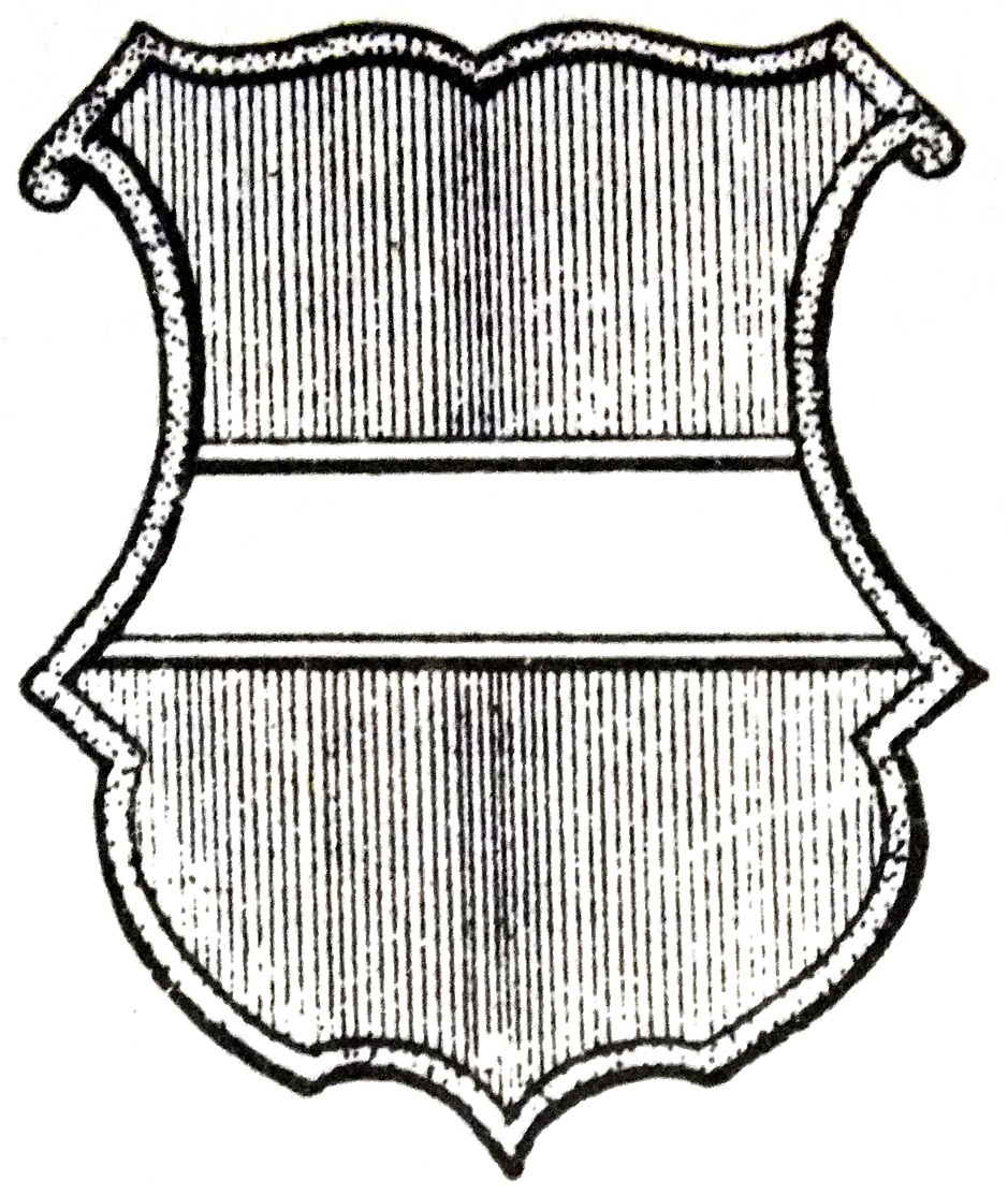 Coat of Arms of the former town of Trhová Zahrádka, nowadays a part of Horní Paseka, the Czech Republic.